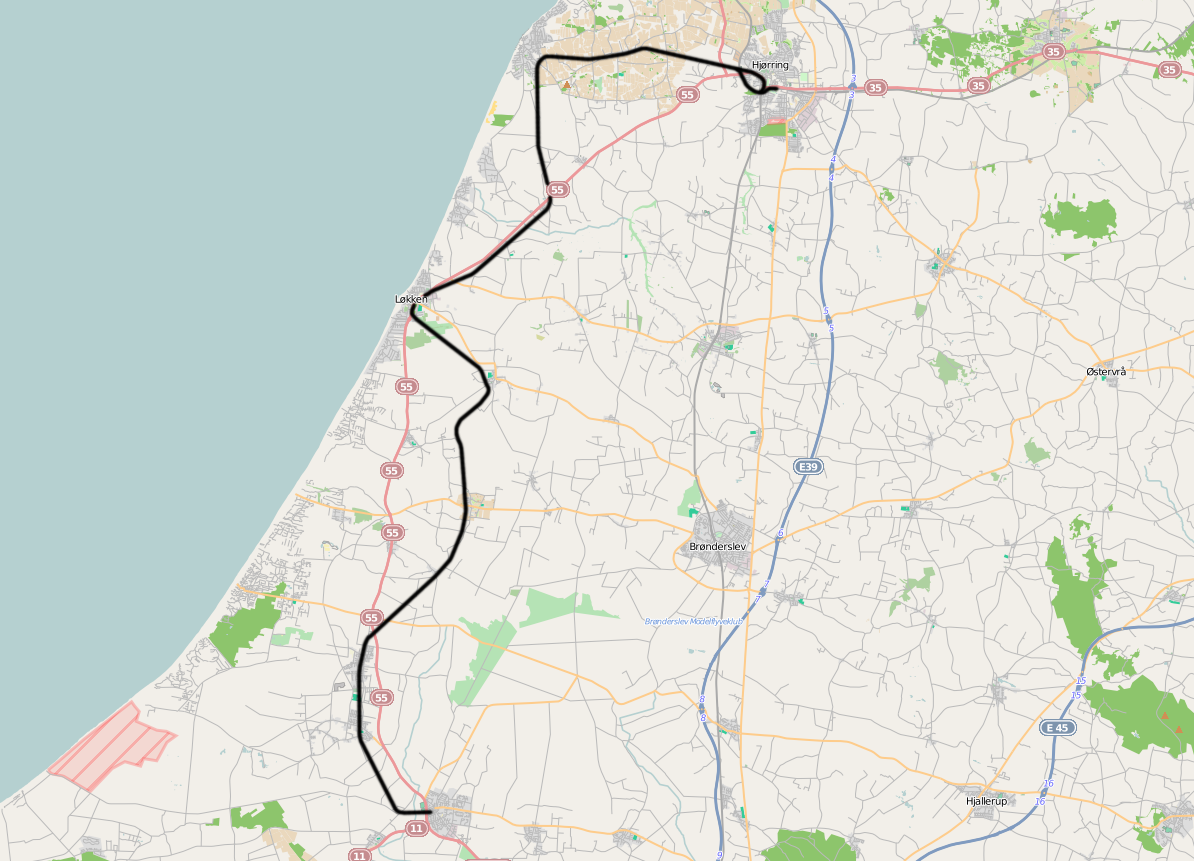 Railway line Hjørring - Aabybro